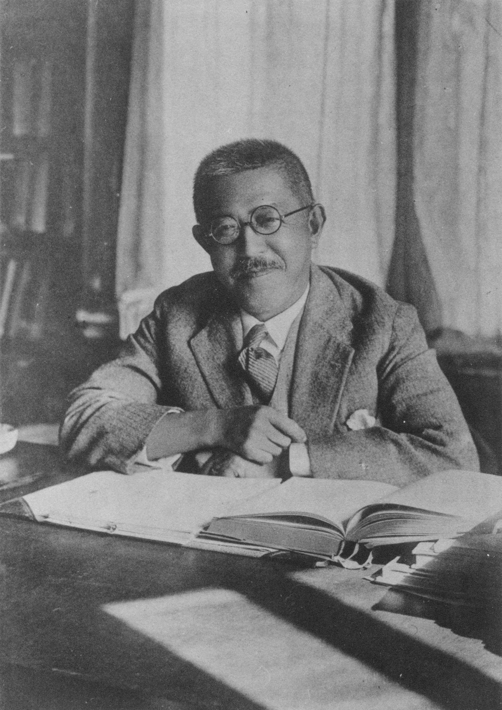 Susumu Kawazu.